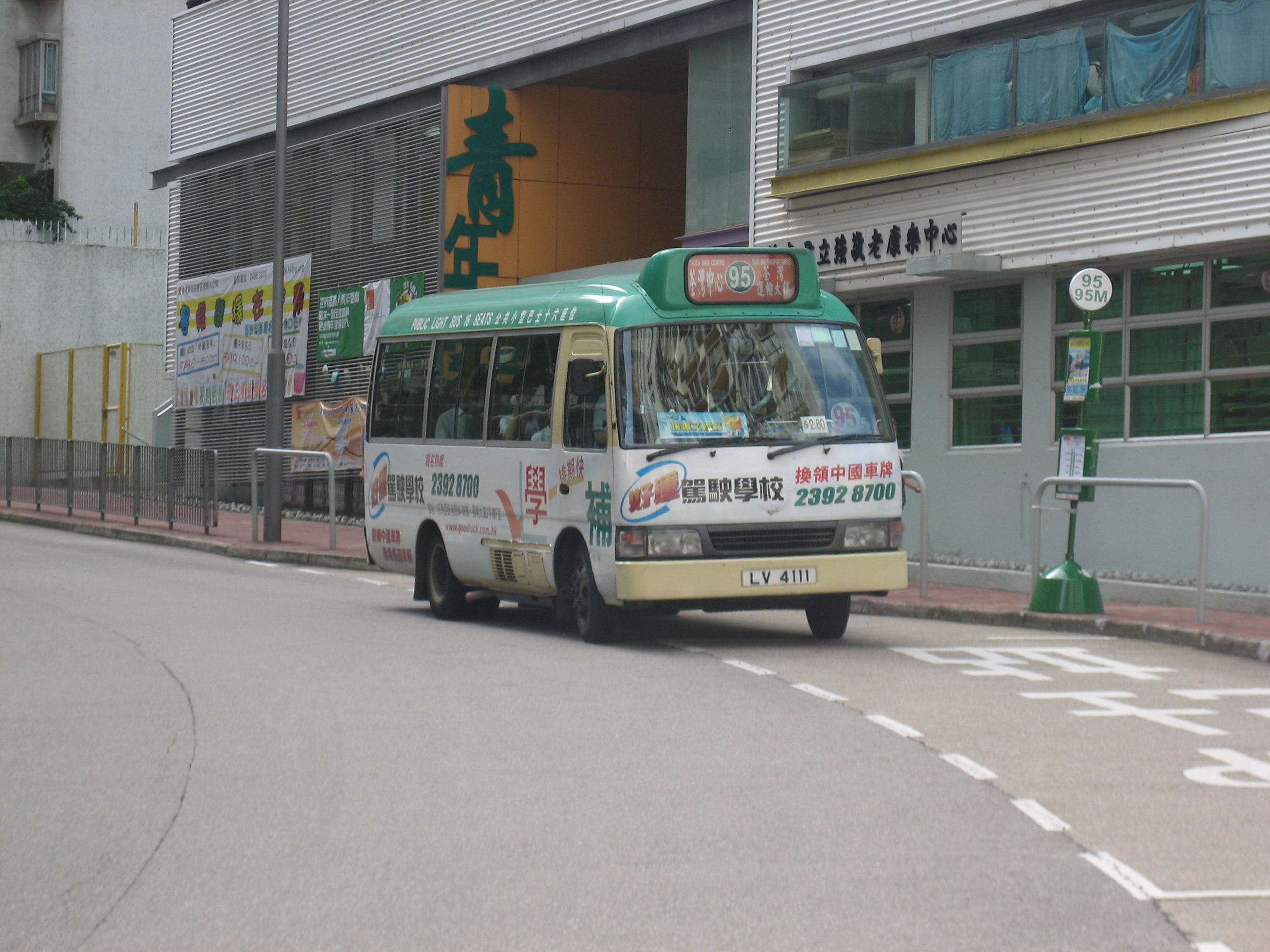 NT minibus route 95